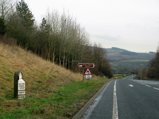 Skipton & Knaresborough Road Now known as the A59.